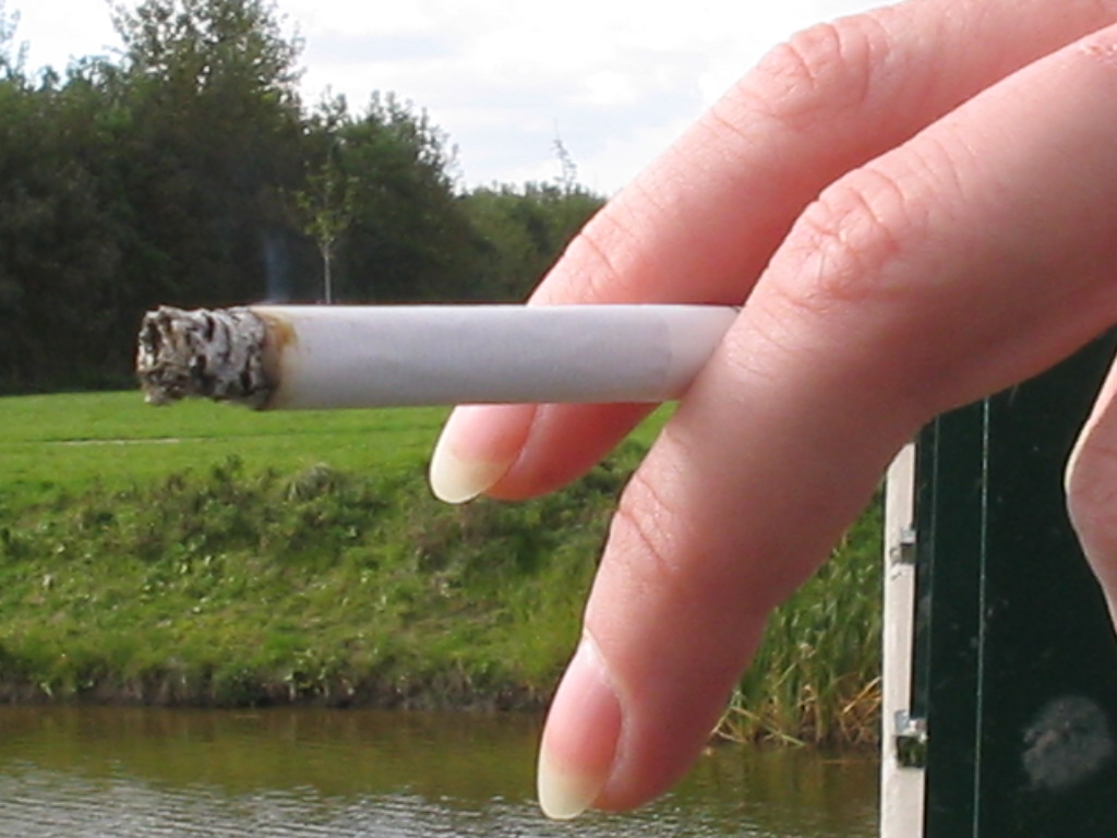 Cigarette smoking